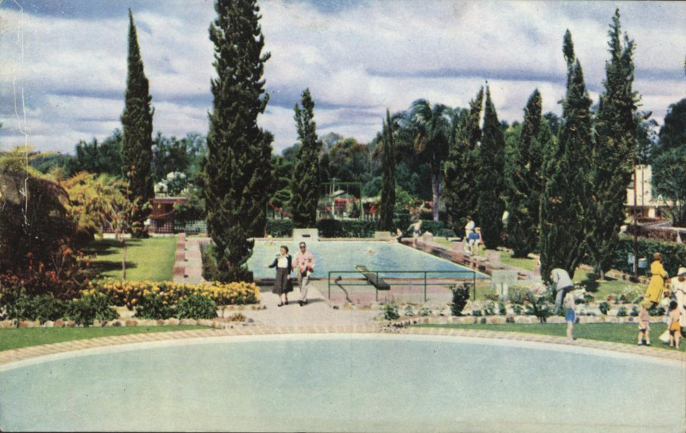 Oasis complex in Sunnybank, Brisbane. Part of the Sands Card series of postcards.